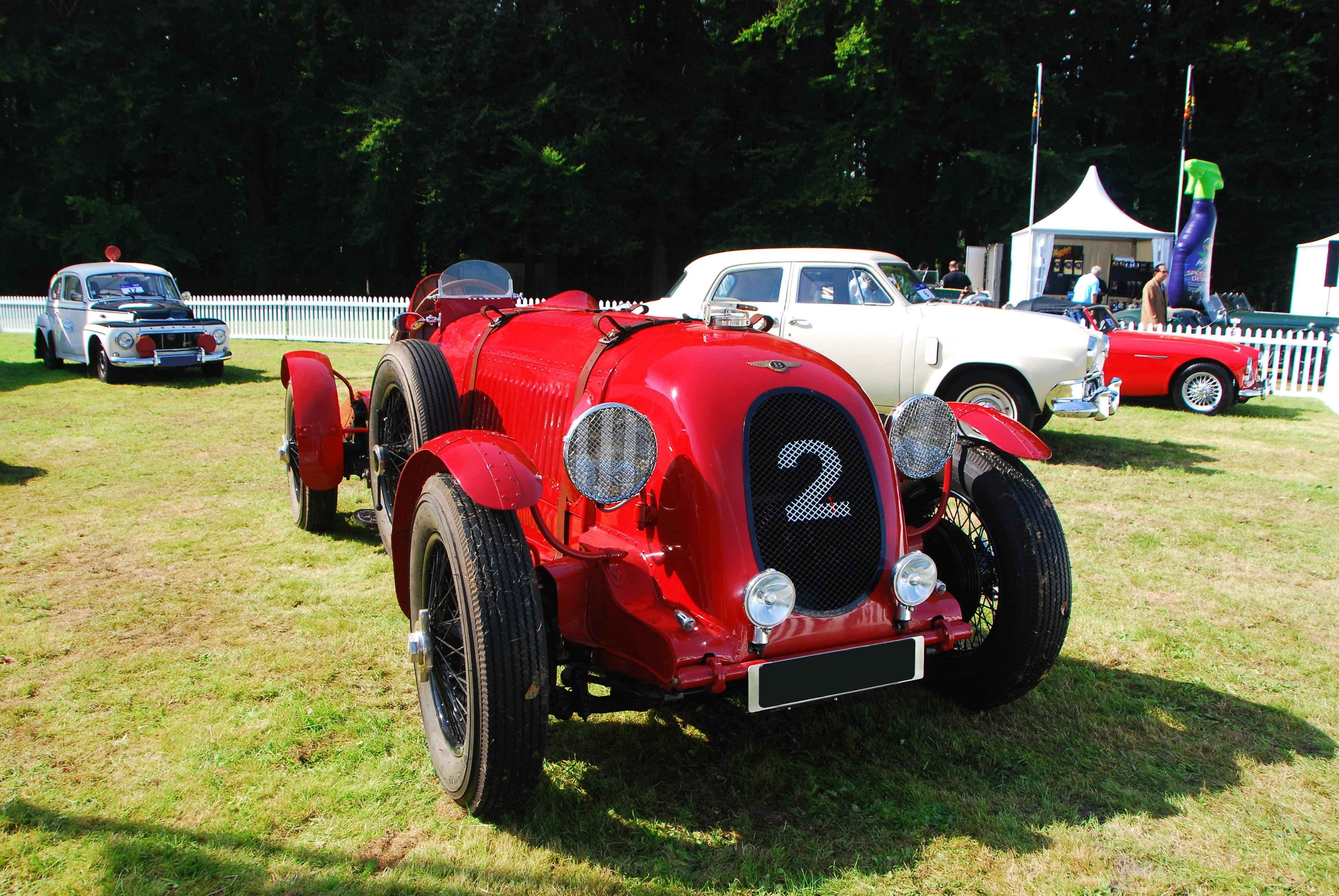 Bentley racing car seen at Concours d'Elegance 2008, Apeldoorn (NL)